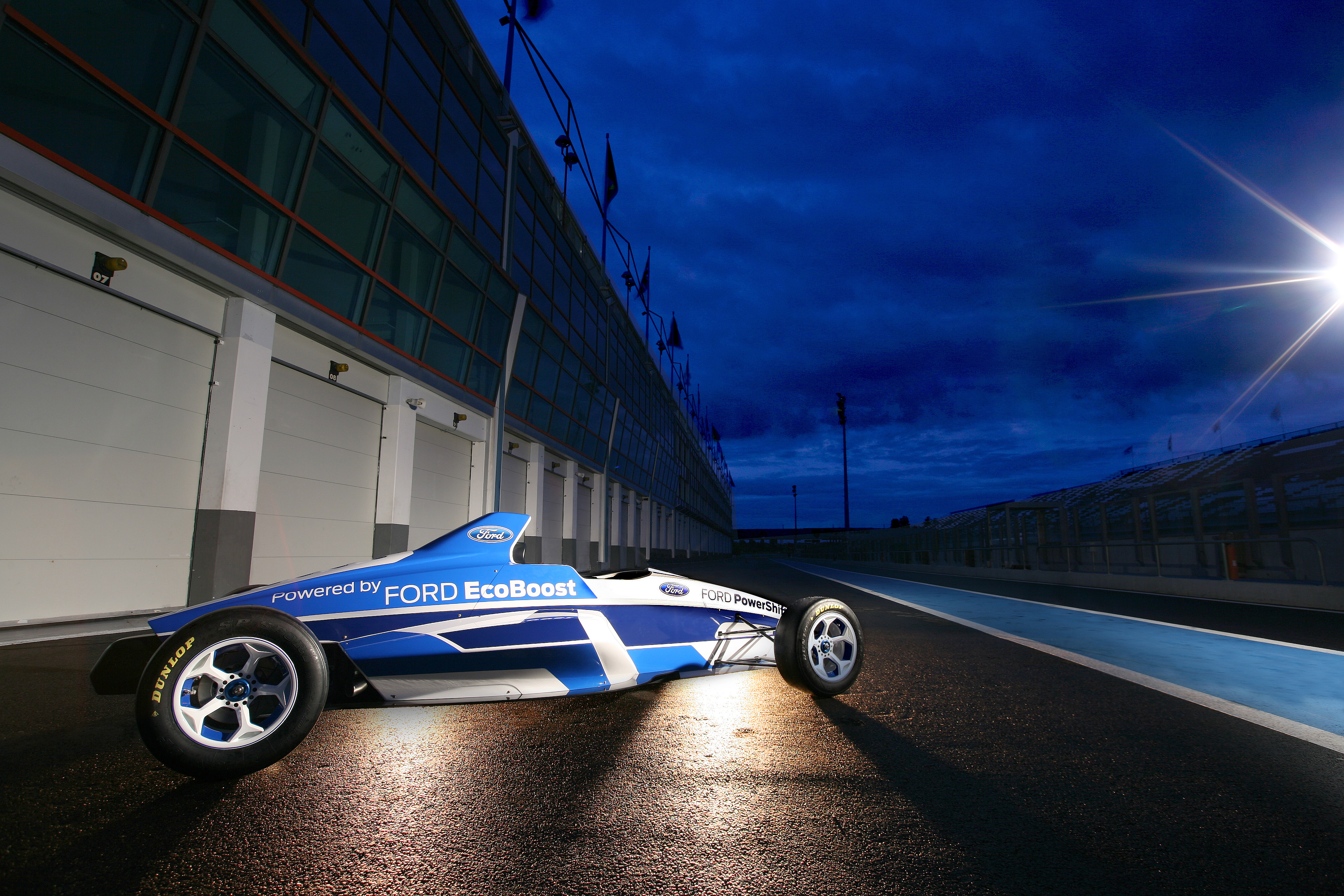 The first images of the 2012 Formula Ford Ecoboost